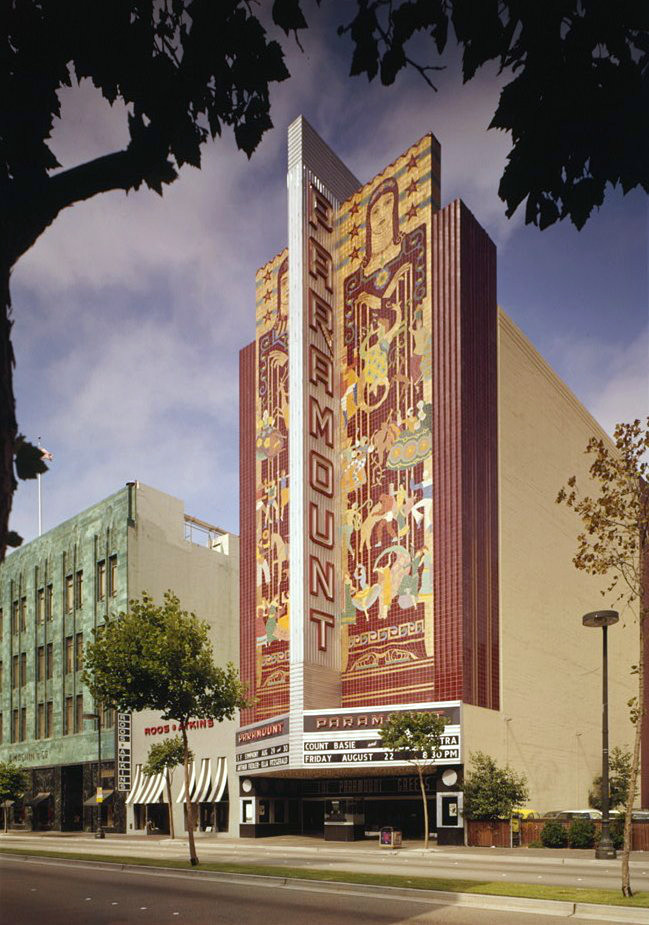 Color photograph of the Paramount Theatre, exterior view of facade from northeast, in Oakland, California. Image (1975): HABS—Historic American Buildings Survey in Oakland, California.